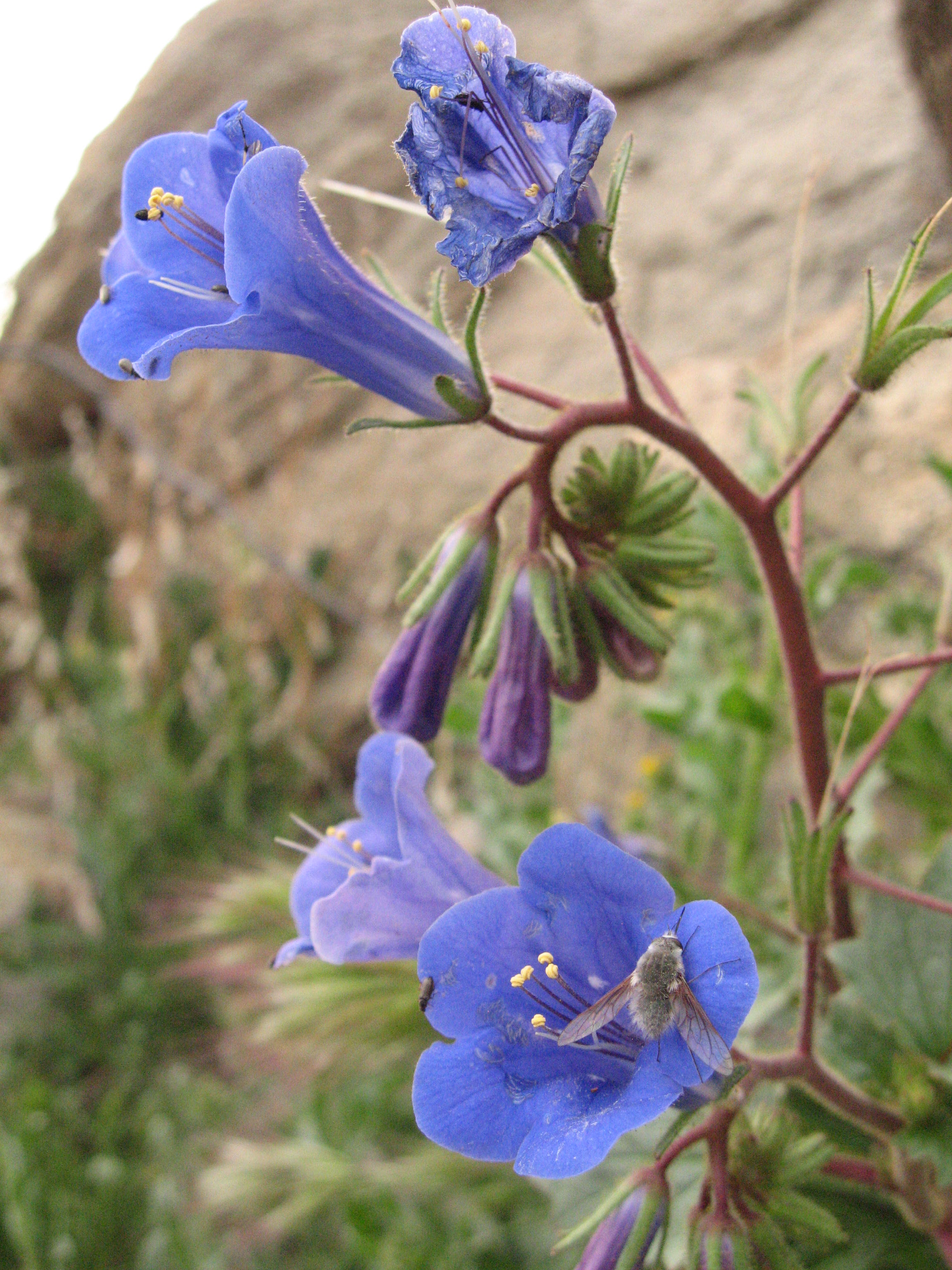 Invertebrates of Joshua Tree National Park: Bee fly, Phacelia campanularia, Quail Wash 8823